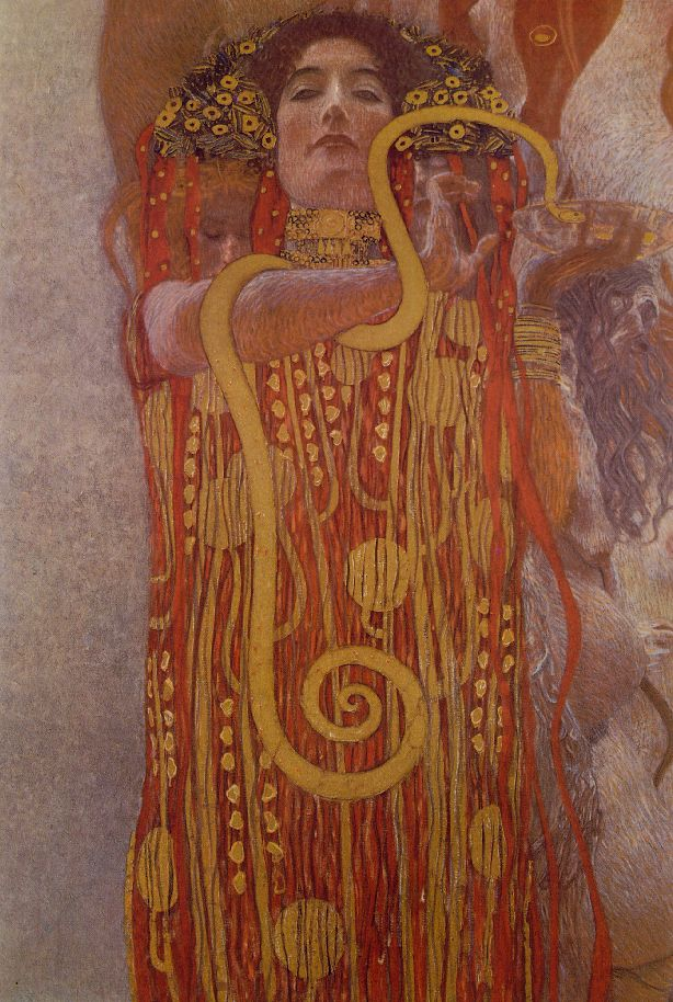 Portion of Klimt's painting Medicine